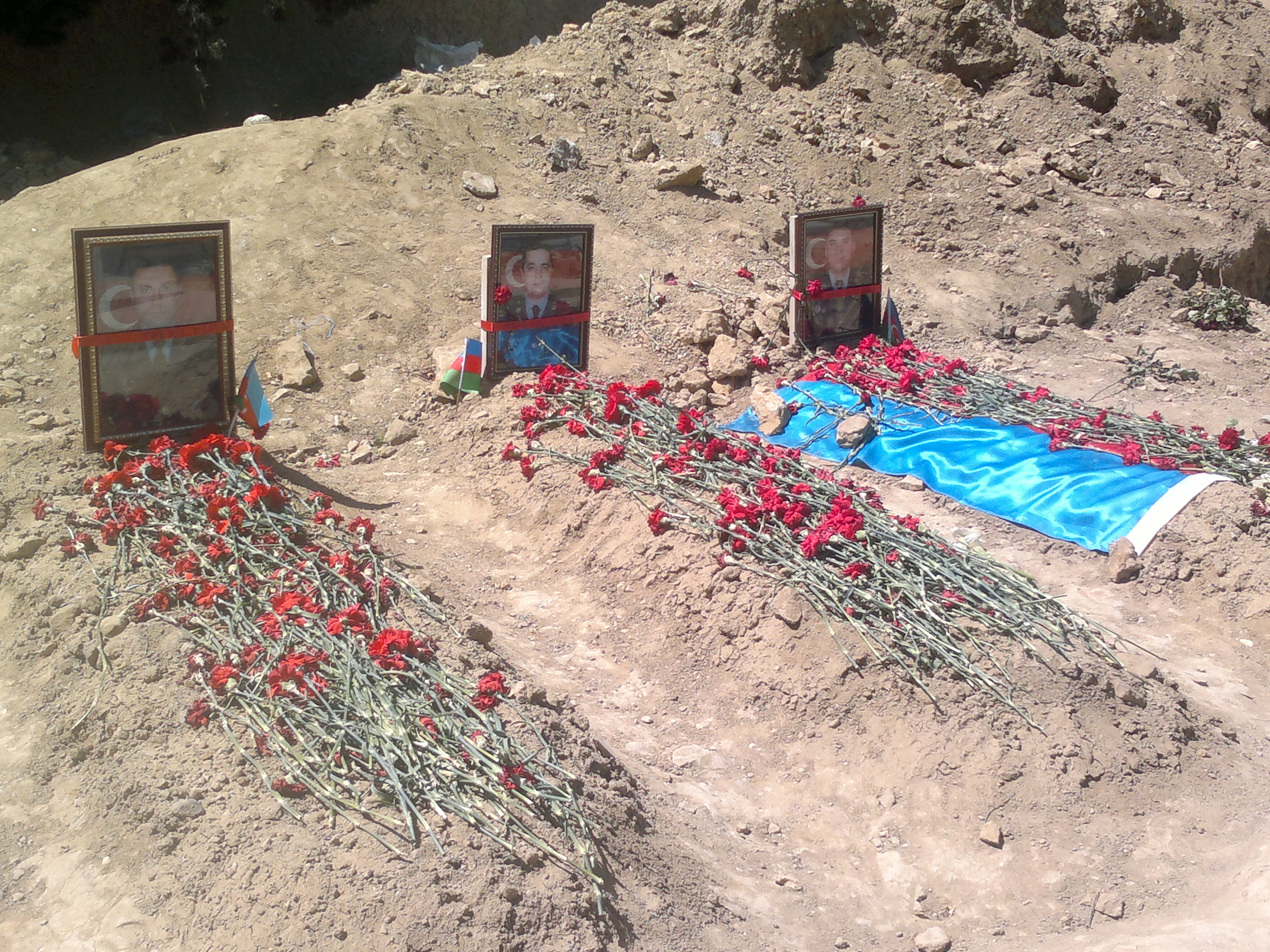 Graves (from right to left) of major Tabriz Mustafazade, major Urfan Valizade and senior lieutenant Bakir Ismayilov (all three pilots of Mi-24 were dead during 2016 Armenian–Azerbaijani clashes) at the II Alley of Honor. Baku, Azerbaijan.